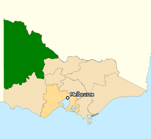 This image incorporates data that is: © Commonwealth of Australia (Australian Electoral Commission) 2009 Division of Mallee 2010